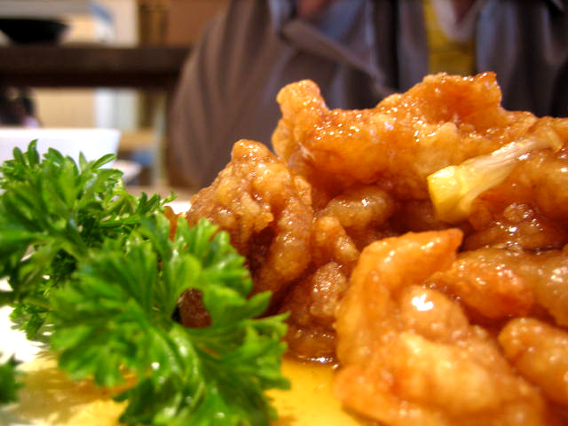 A plate of Chinese-style lemon chicken. Photo taken with a Canon Digital IXUS 50 digital camera.